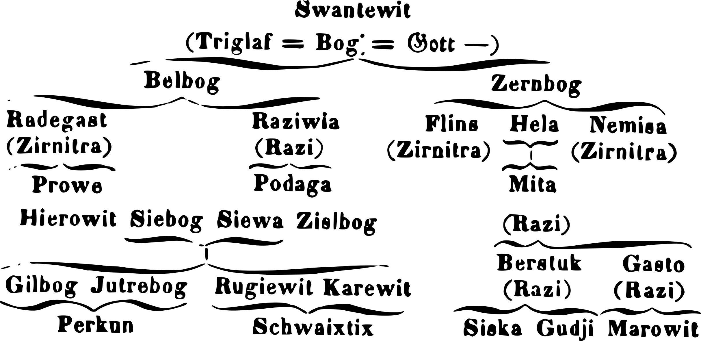 Divine hierarchy and cosmology of northwestern Slavic religion as reconstructed by Ignác Jan Hanuš (1842).